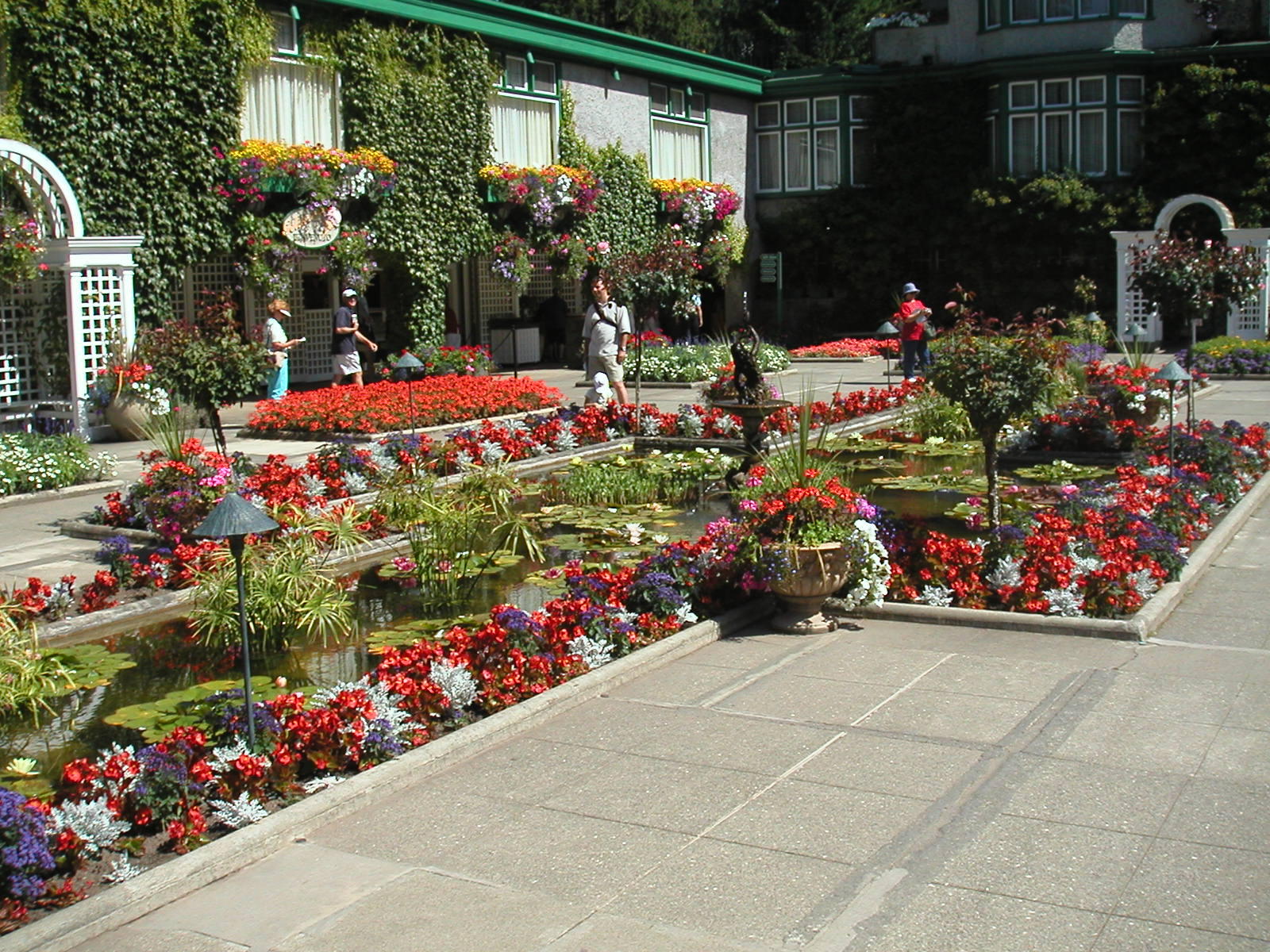 Italian garden of the "Butchart gardens", Vancouver Island, British Columbia, Canada